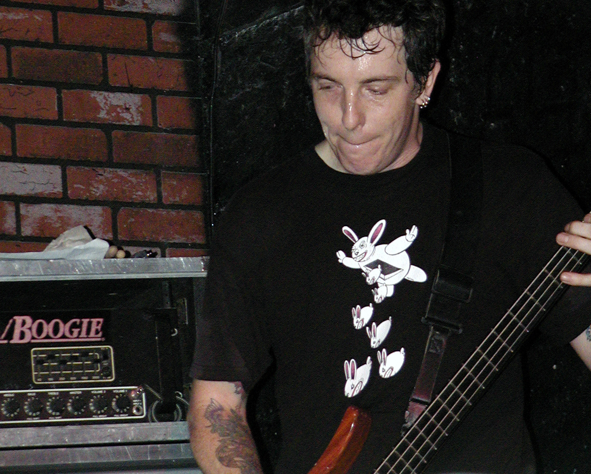 Larry Boothroyd, bass guitarist for Victim's Family, onstage in San Francisco.